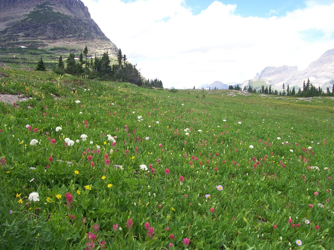 Alpine meadow flowers (Alpine plant) at Logan Pass (Garden Wall trail). July 2007